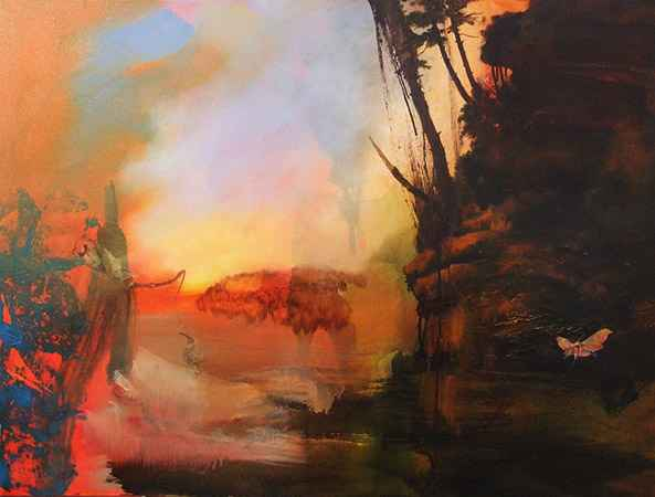 Painting by Alan Rankle